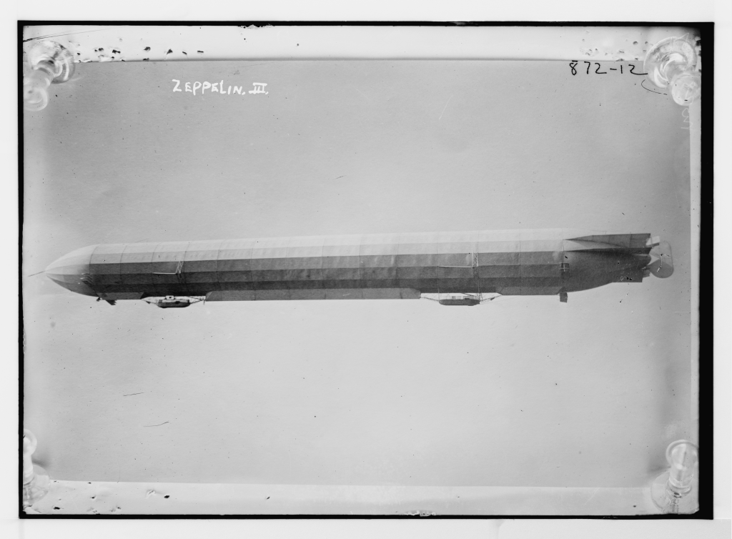 The German Zeppelin (airship) probably LZ 12 (military number: Z III) (April 25, 1912 to August 1, 1914) with incorrect year from Library of Congress. If the 1907 date is correct then this can only be the LZ3 (military number: Z I) with a rudder added after its first flights (but was LZ3 ever modified that way?). Other possibilities: LZ 4 (June 20, 1908 to 4 August 1908) had a rudder; LZ 6 (August 25, 1909 to 1910). This is a PNG version downscaled to 1024 pixels wide, but otherwise unmodified, from the original high resolution TIFF from the Library of Congress archive.